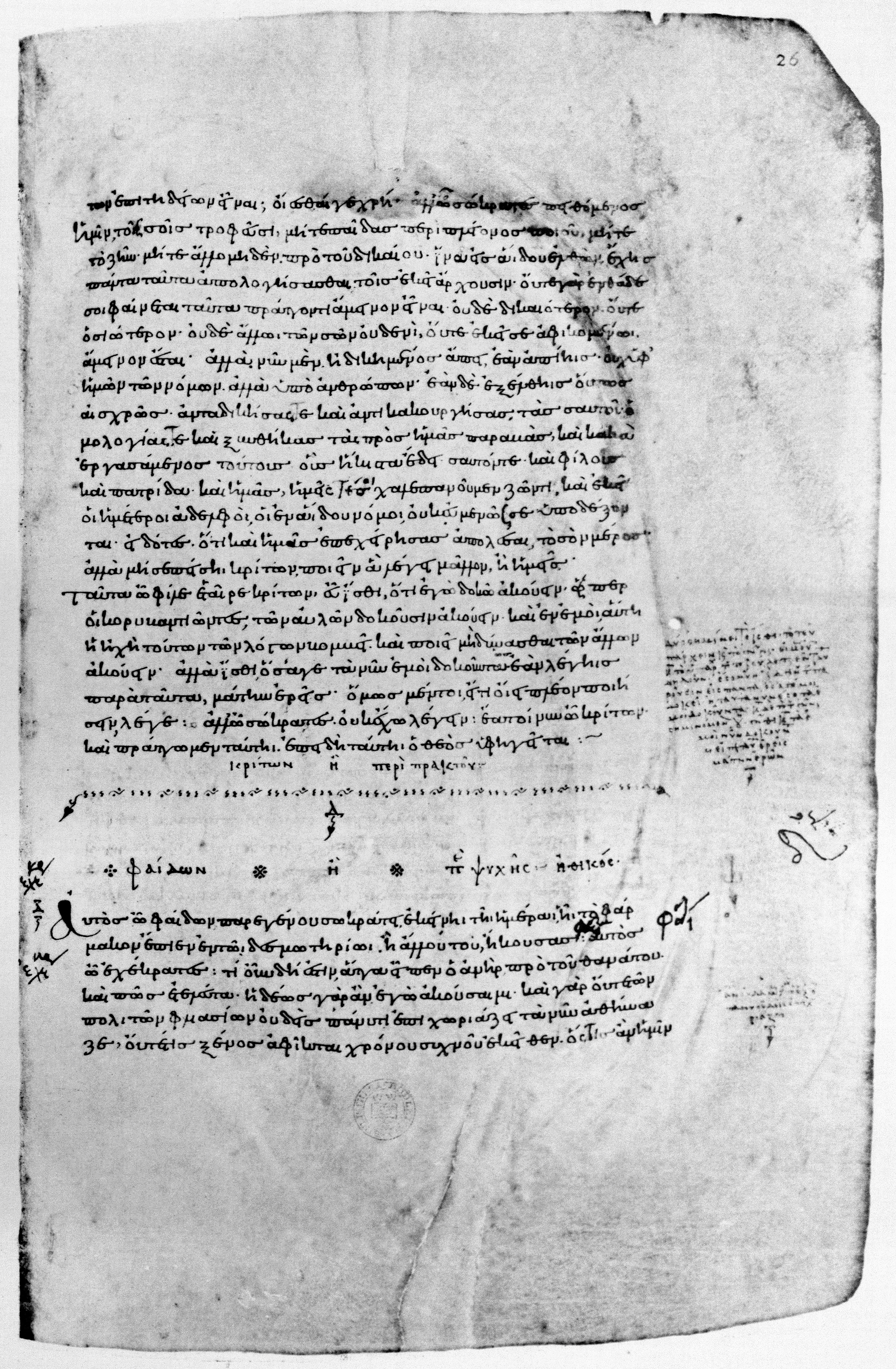 Page of the Codex Oxoniensis Clarkianus 39 (Clarke Plato). Dialogue Phaidon.